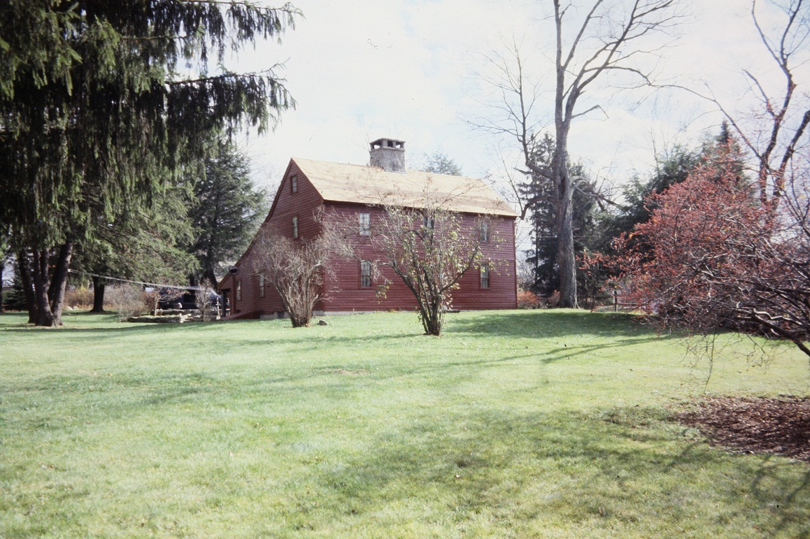 Image of the Thomas Hawley House in Monroe, Connecticut